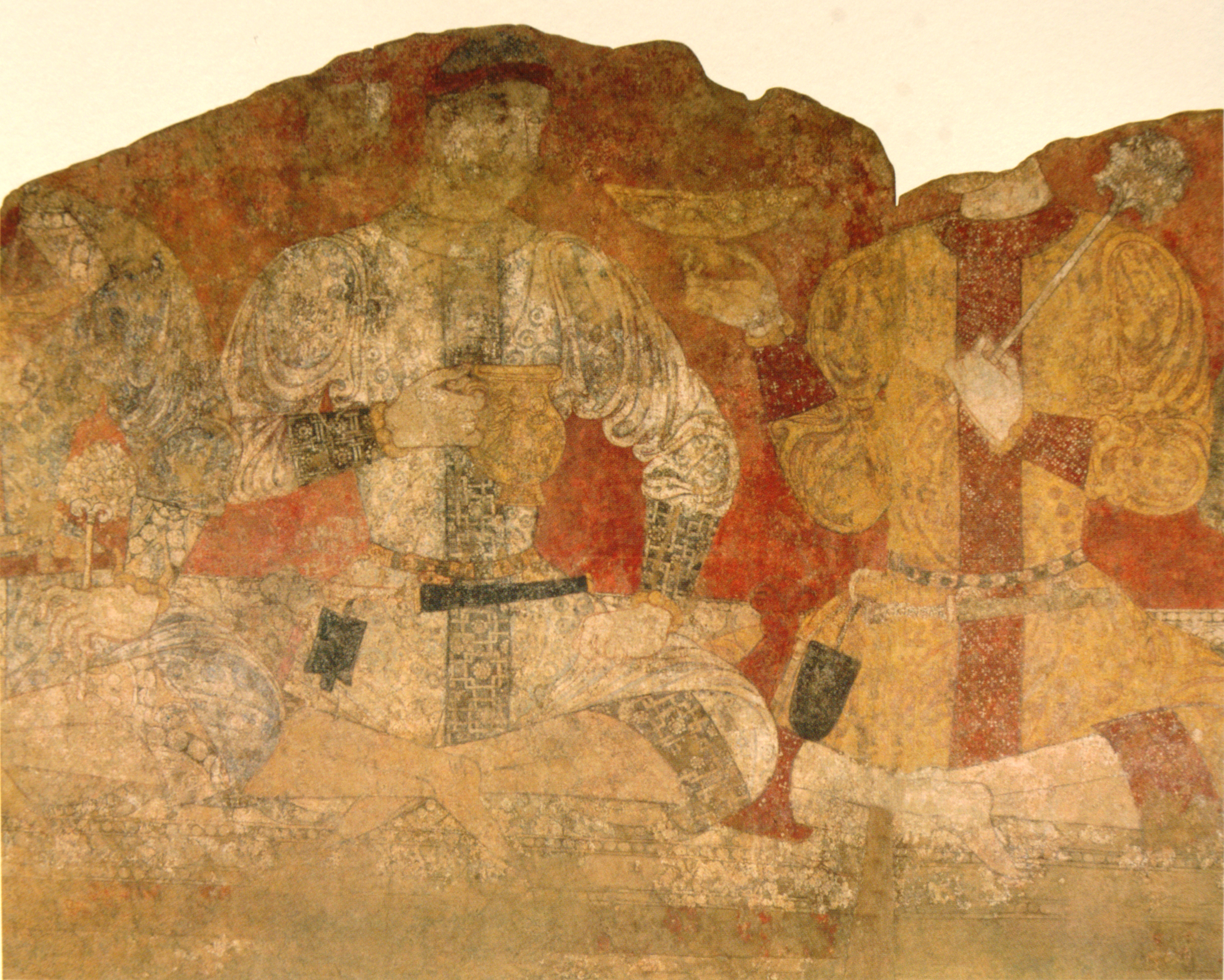 Men banquet, pigment on plaster. Pendjikent, Tadjikistan. 1.23 x 3.64 m.